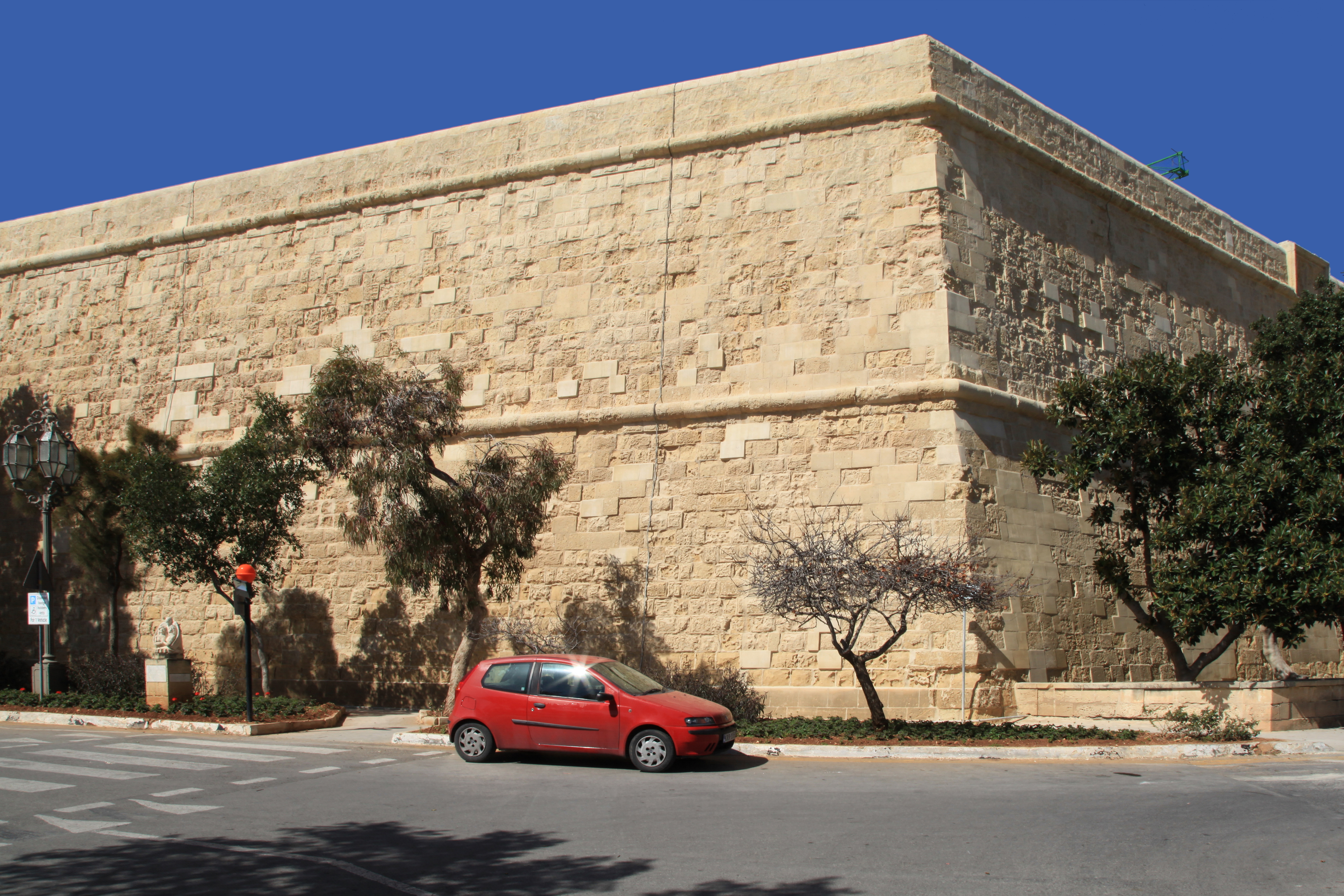 St. James Cavalier at Triq Girolamo Cassar in Valletta, Malta